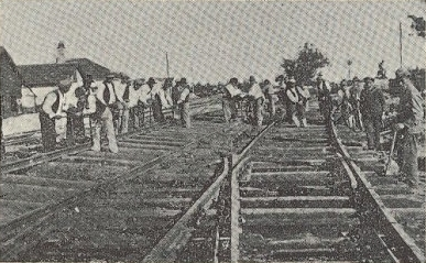 Trackwork during the expansion of the Pinhal Novo railway station, in Alentejo, Portugal. The photograph shows the process of joining the rail tracks. This image was published on the Gazeta dos Caminhos de Ferro magazine No. 1130, of 16th January 1935, and scanned by the Hemeroteca Municipal de Lisboa.